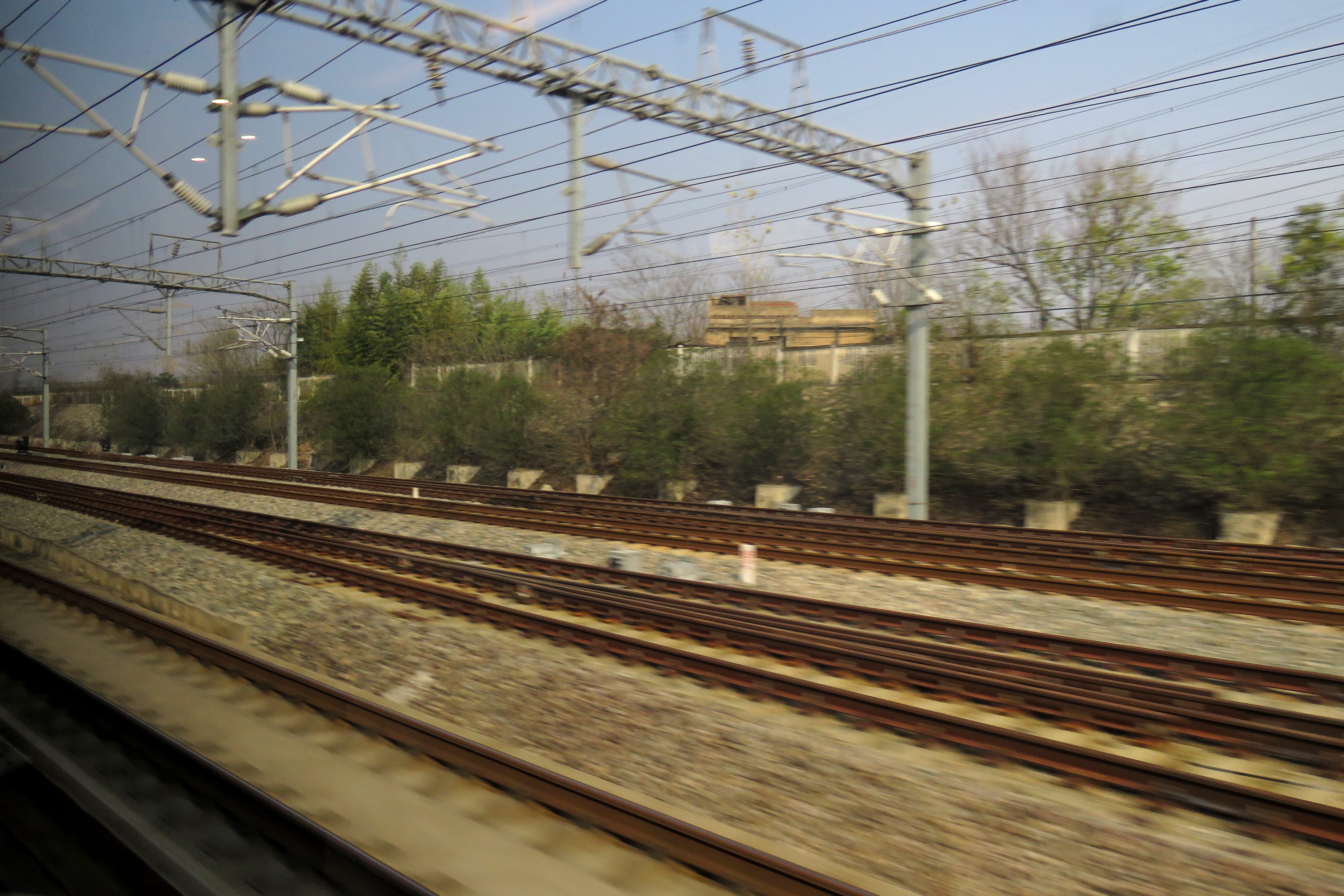 Taken from G80... the station without platforms after Wuhan.